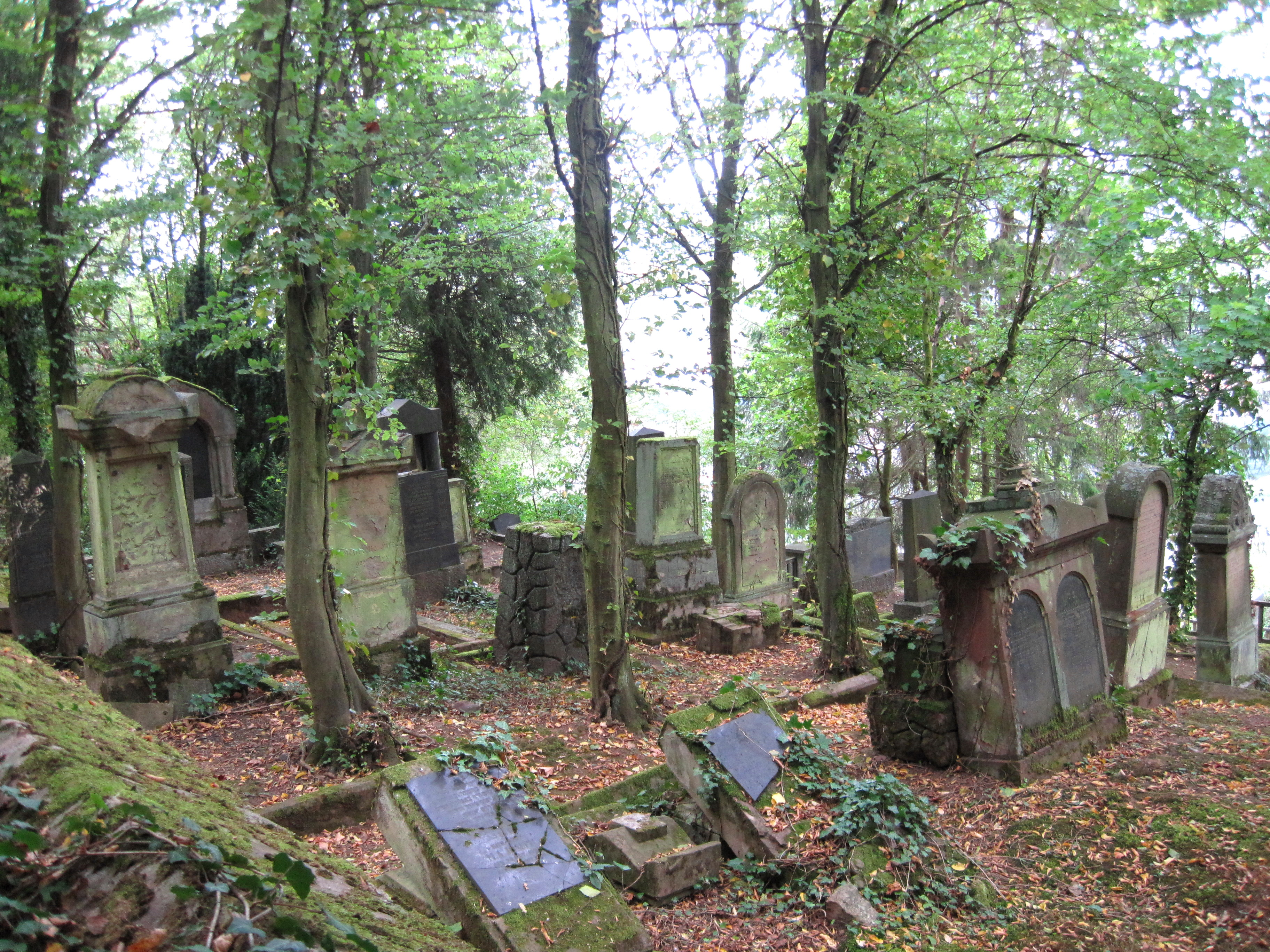 Jewish cemetery, Bingen am Rhein, Rhineland-Palatinate, Germany